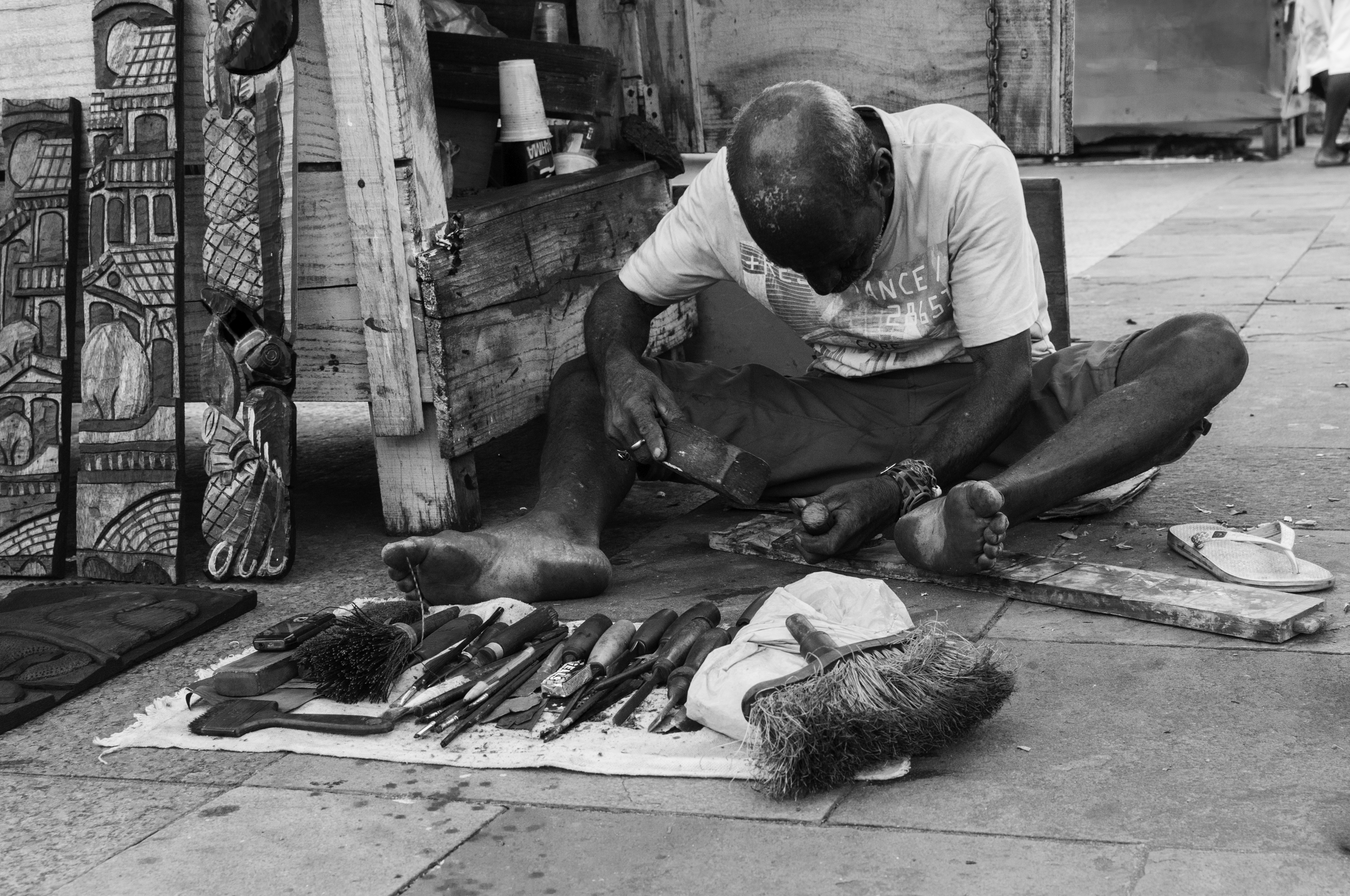 Street Craftsman in Olinda, Pernambuco, Brazil